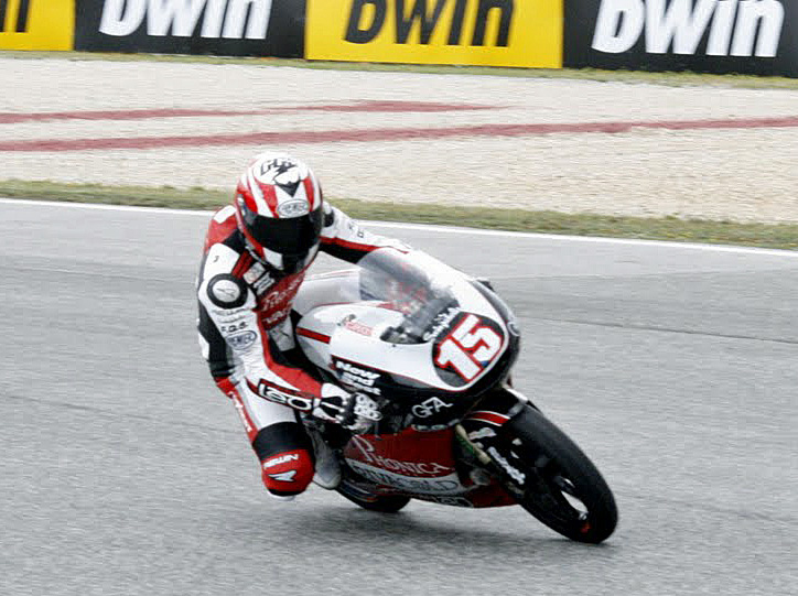 Simone Grotzkyj 2011 Estoril